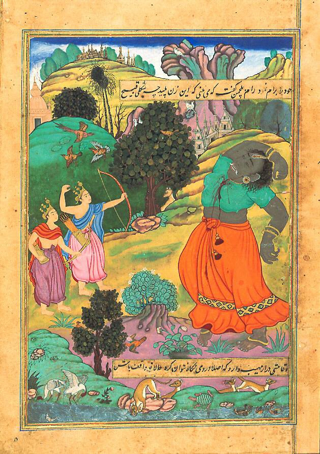 Ramayana of mughal